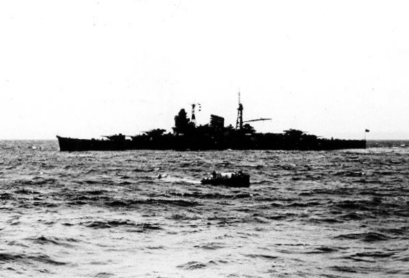 The Japanese Mogami-class cruiser Mikuma in Sukumo Bay, southern Shikoku, April 1939, with a small boat passing by in the foreground.